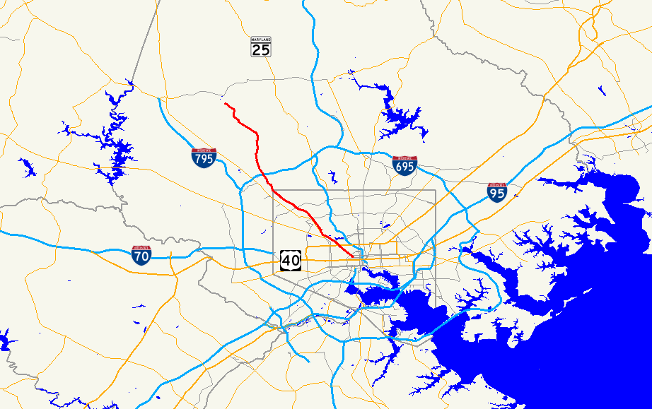 Map of Maryland Route 129